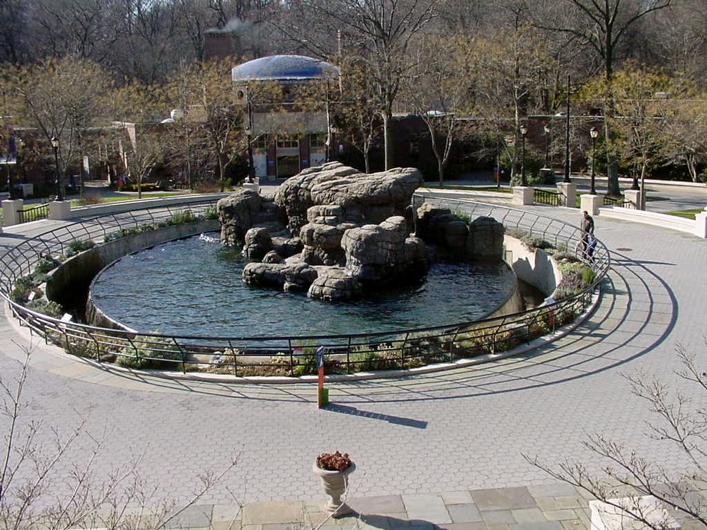 The Sea Lion Court at the entrance to the Prospect Park Zoo, Brooklyn, New York